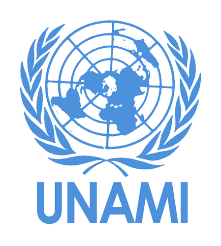 The design is "a map of the world representing an azimuthal equidistant projection centred on the North Pole, inscribed in a wreath consisting of crossed conventionalized branches of the olive tree, in gold on a field of smoke-blue with all water areas in white. The projection of the map extends to 60 degrees south latitude, and includes five concentric circles" (original description of the emblem). Beneath it is the abbreviation used for United Nations Assistance Mission for Iraq.